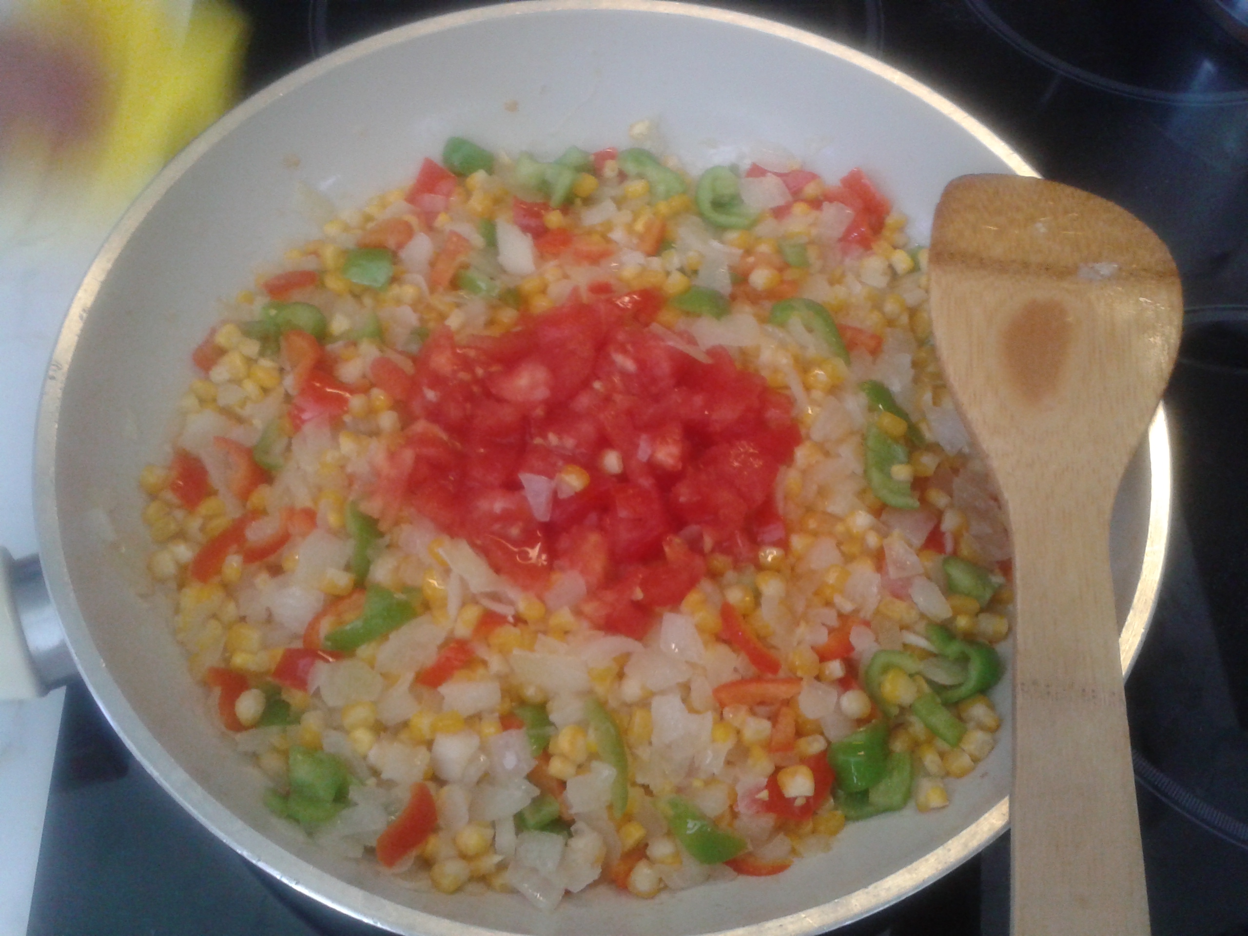 Sofrito being prepared to cook "porotos granados".